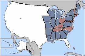 1844 election results in USA